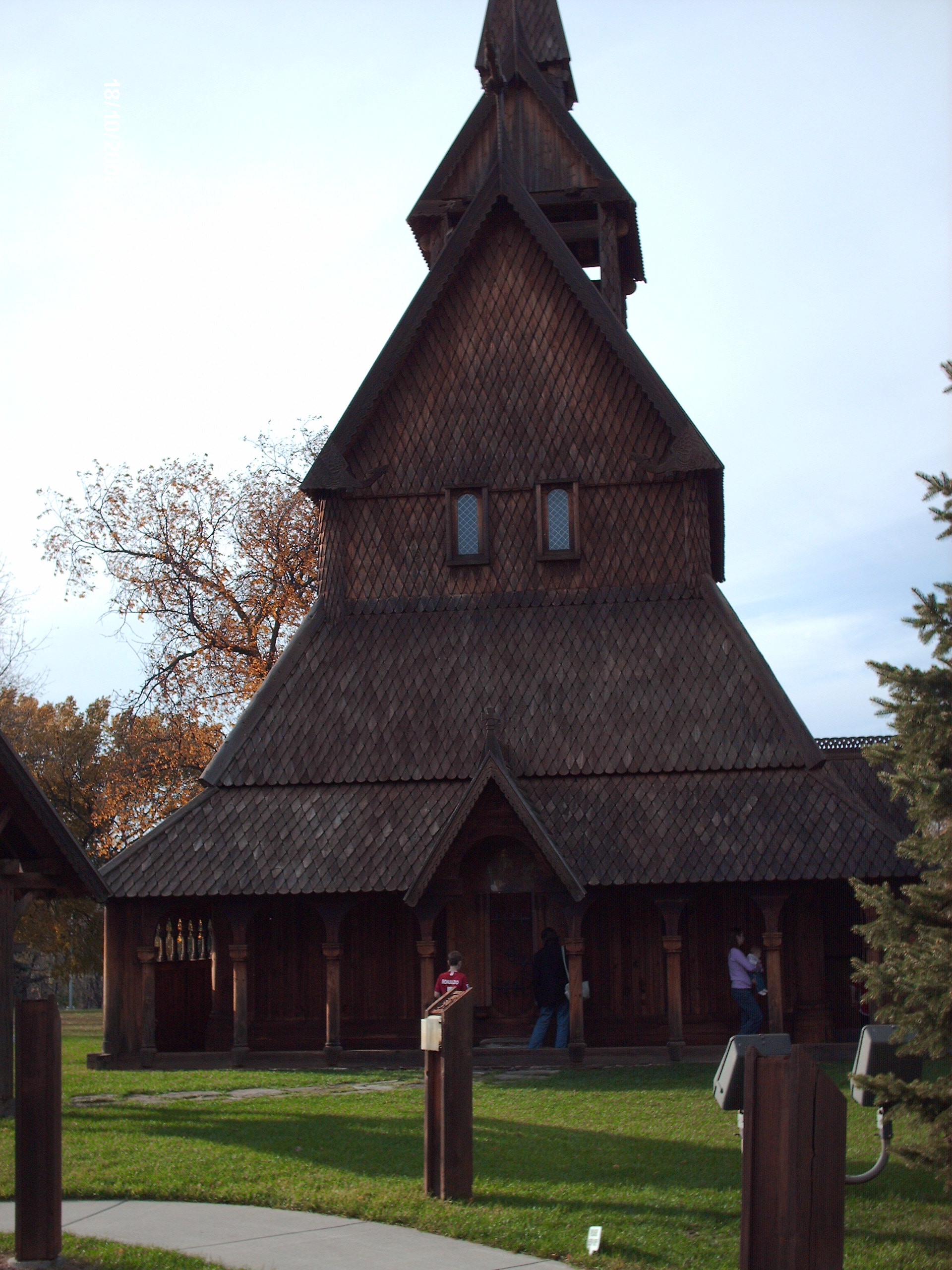 Stave church in Moorhead, Minnesota.